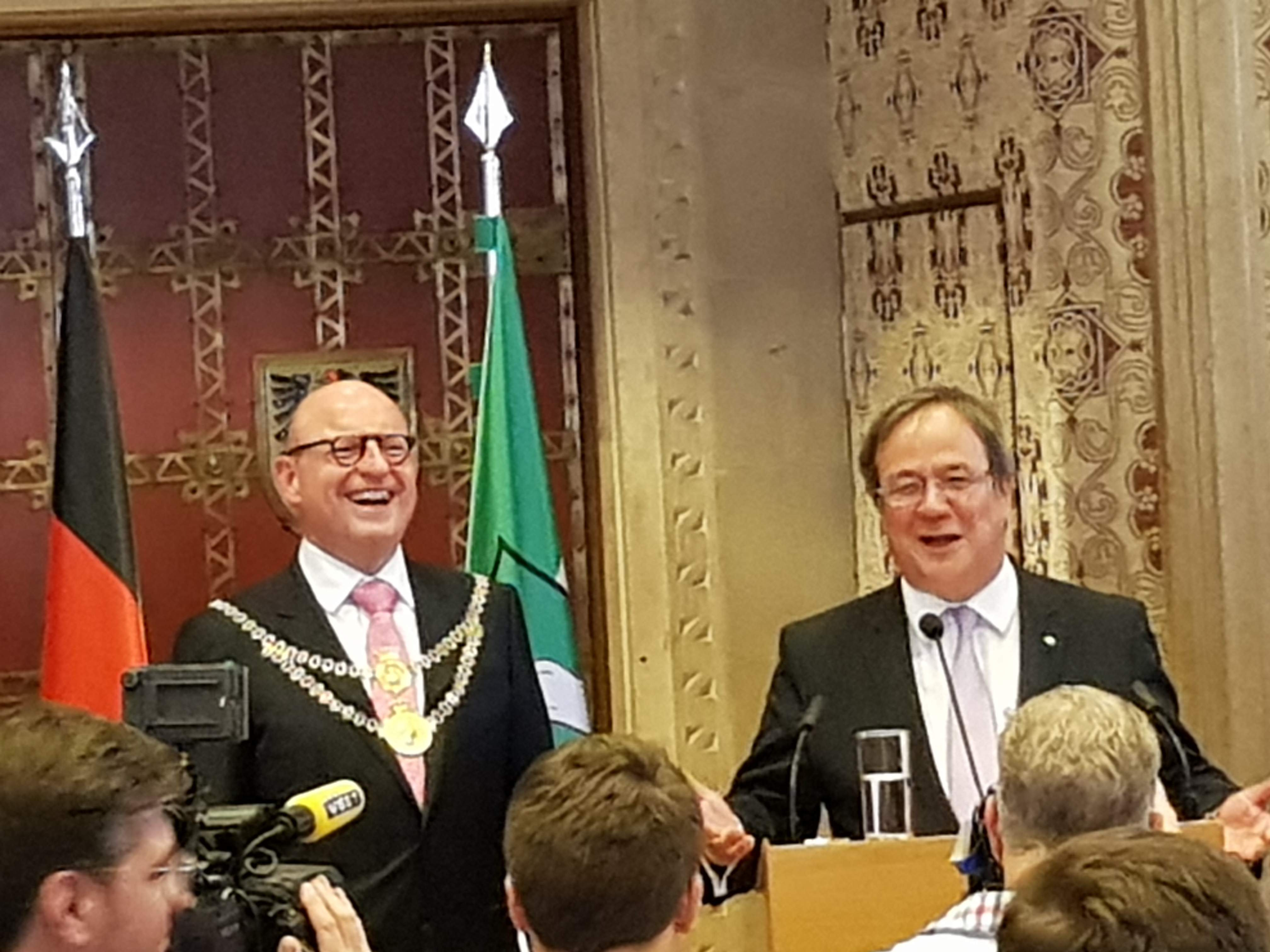 Oberbürgermeister Markus Lewe und Ministerpräsident Armin Laschet bei einem Empfang